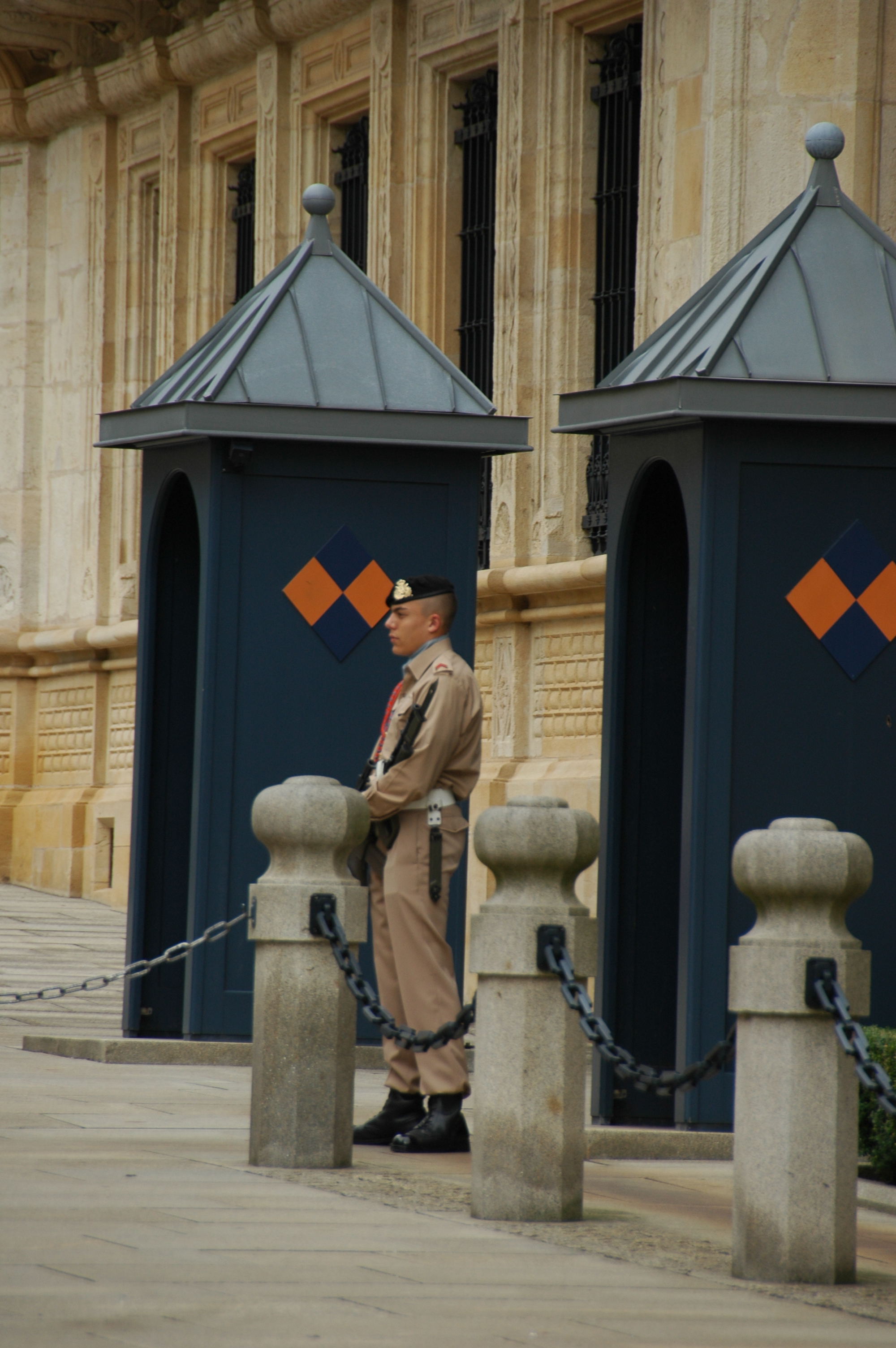 Guard in front of Grand Ducal Palace, Luxembourg